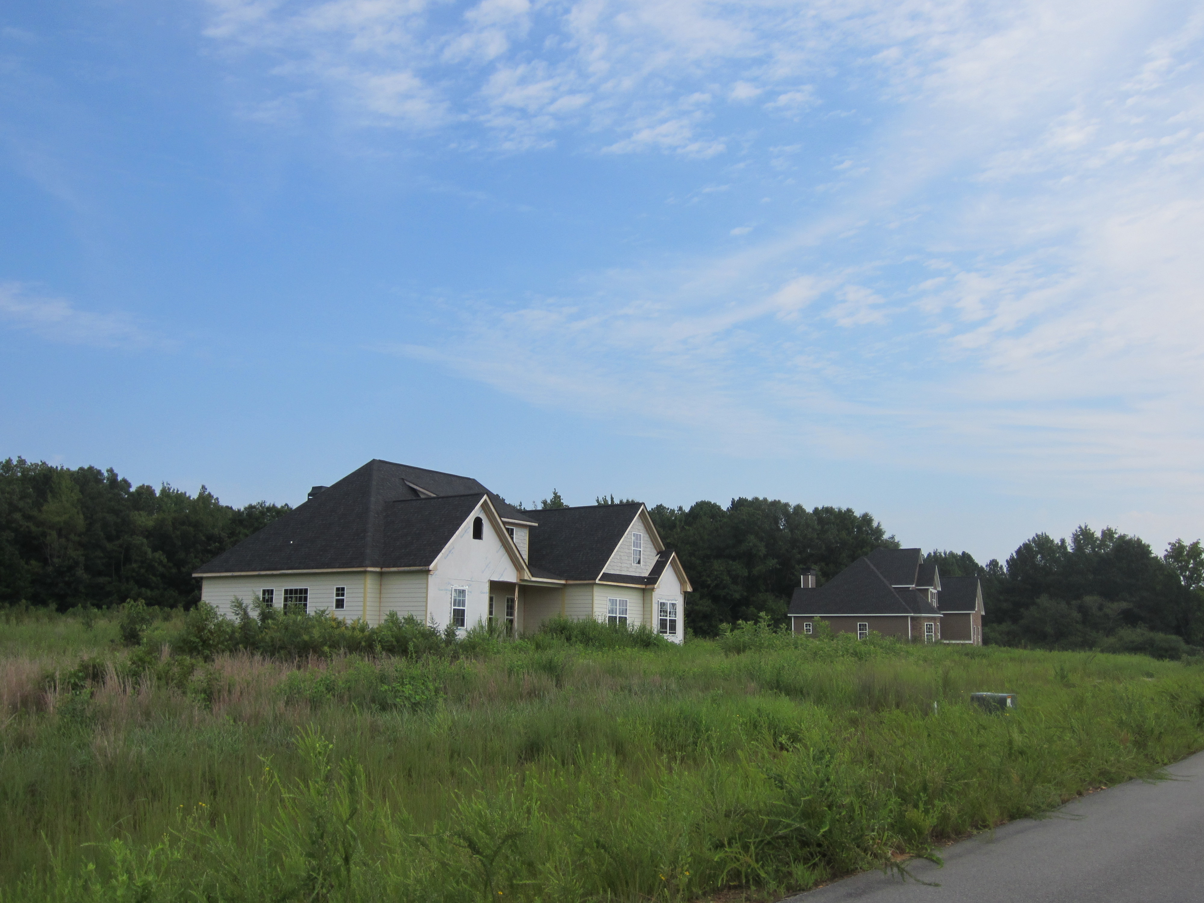 An example of home construction style in Walton County, Georgia